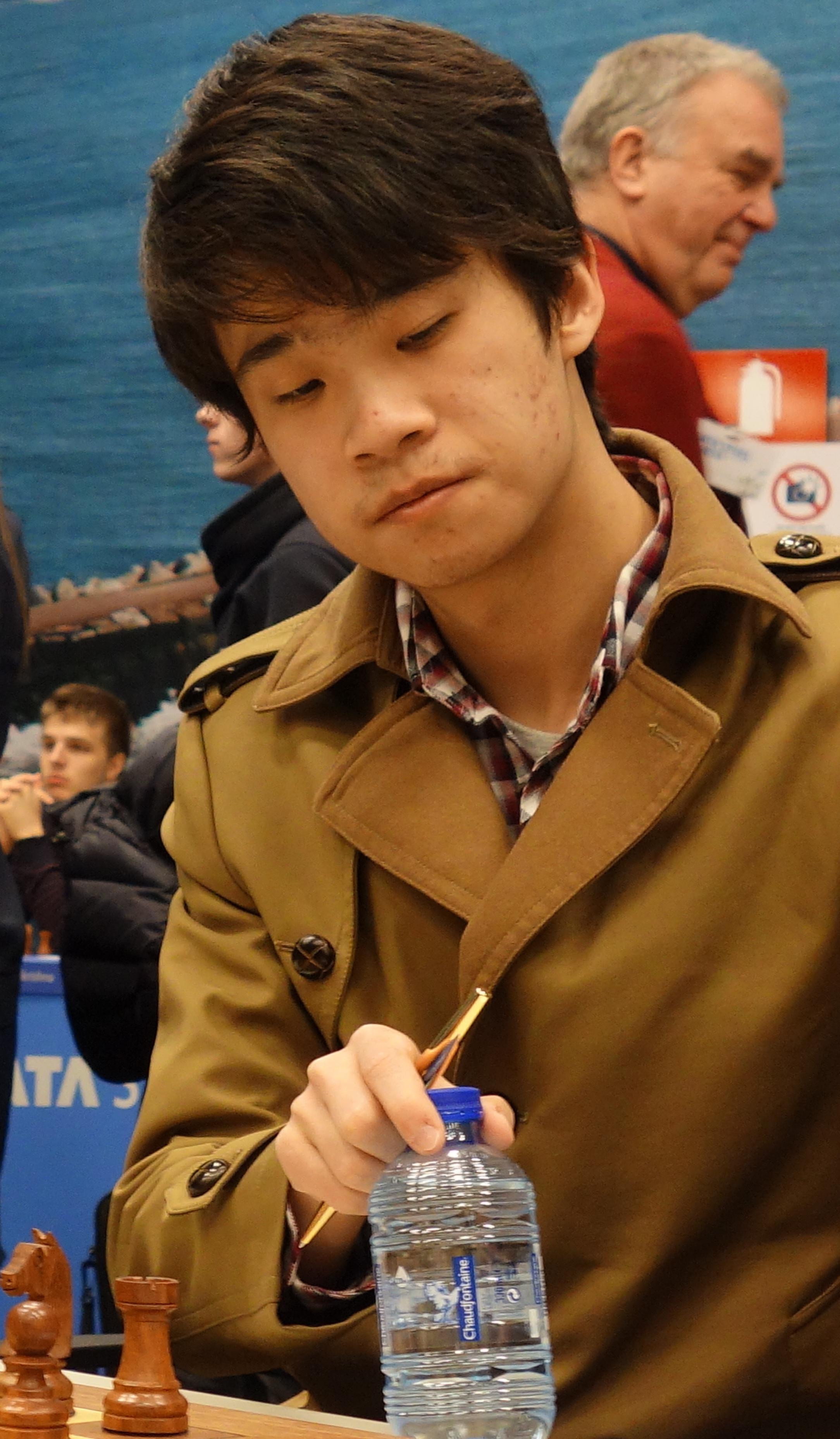 Lu Shanglei. Tata Steel Chess Tournament 2017, Wijk aan Zee (the Netherlands), 28 January 2017